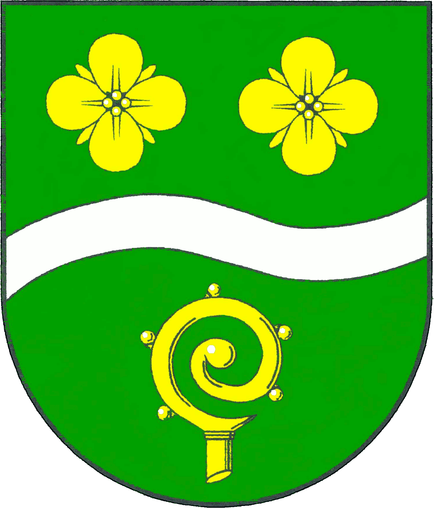 Coat of arms of the municipality Krummbek in Schleswig-Holstein, Germany.